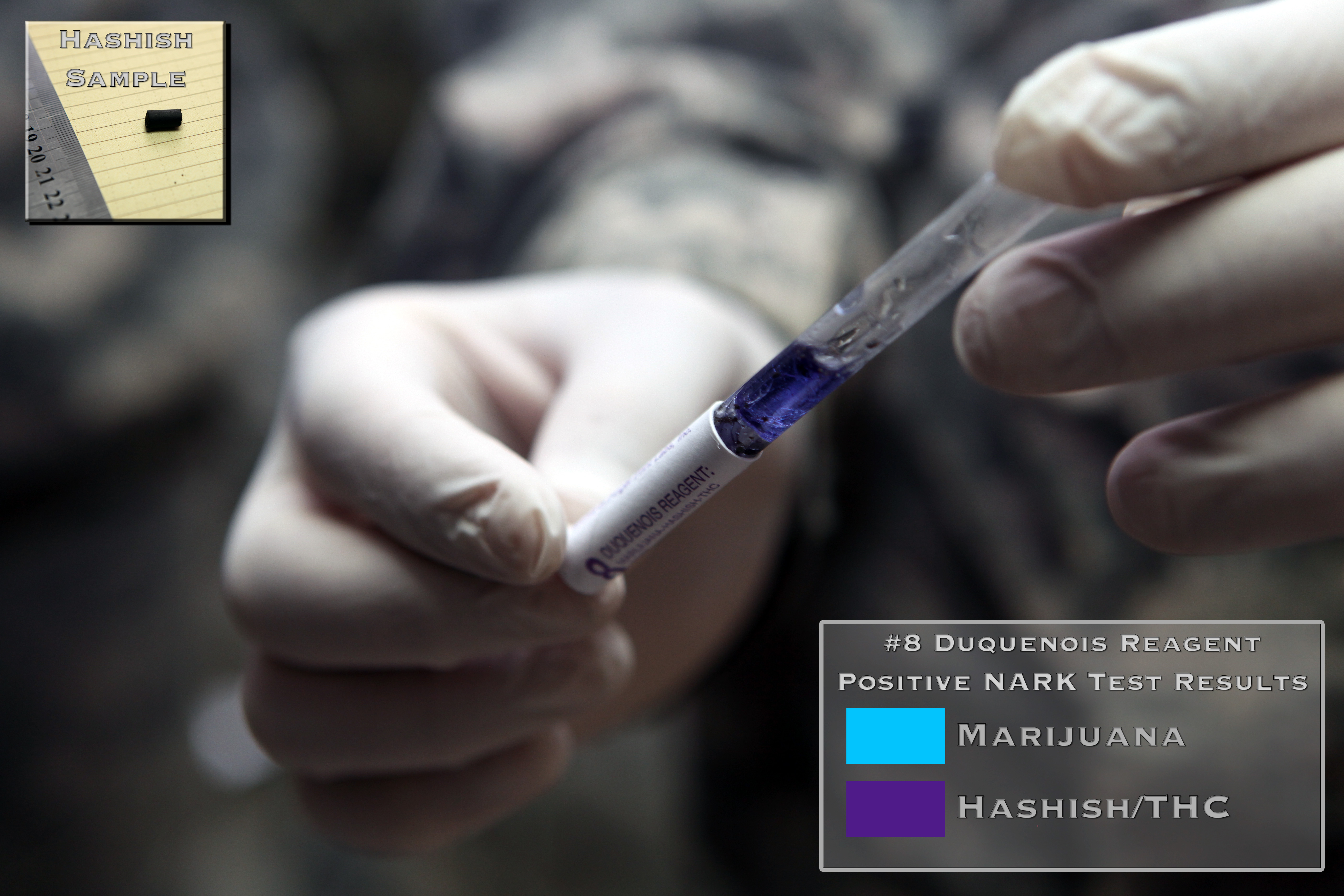 The above photo shows the positive results of the number 8 Duquenois reagent presumptive drug test when used with a sample of Afghan Hashish.The Duquenois test is conducted by placing a small sample of suspect material (about the size of the tip of a typical pocket knife) inside the test vial. The top ampoule contains concentrated hydrochloric acid and is crushed first. After being shaken vigorously, the bottom ampoule containing a vanillin solution in ethanol is crushed and the tube shaken again. The deep blue/purple tint of the liquid inside the vial indicates the test was positive for the cannabinoids present in the hashish sample. Other THC containing drugs such as marijuana or hash oil will produce a light blue to dark purple reaction using the Duquenois reagent test.This photo was created as part of a training program to assist the Afghan National Army in properly investigating, forensically testing and prosecuting drug crimes.